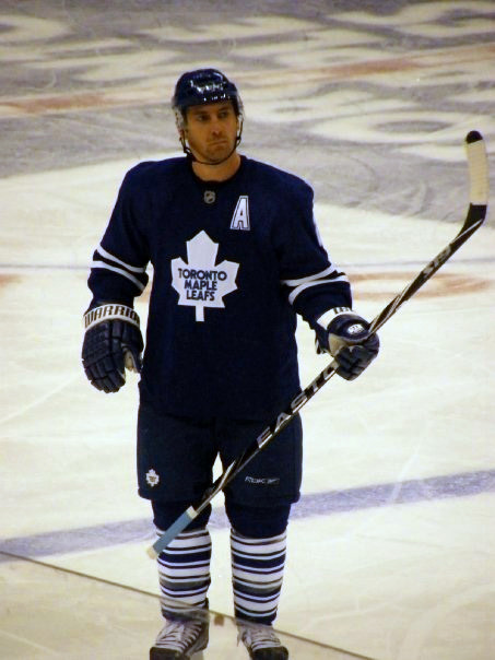 At ACC vs. Minnesota